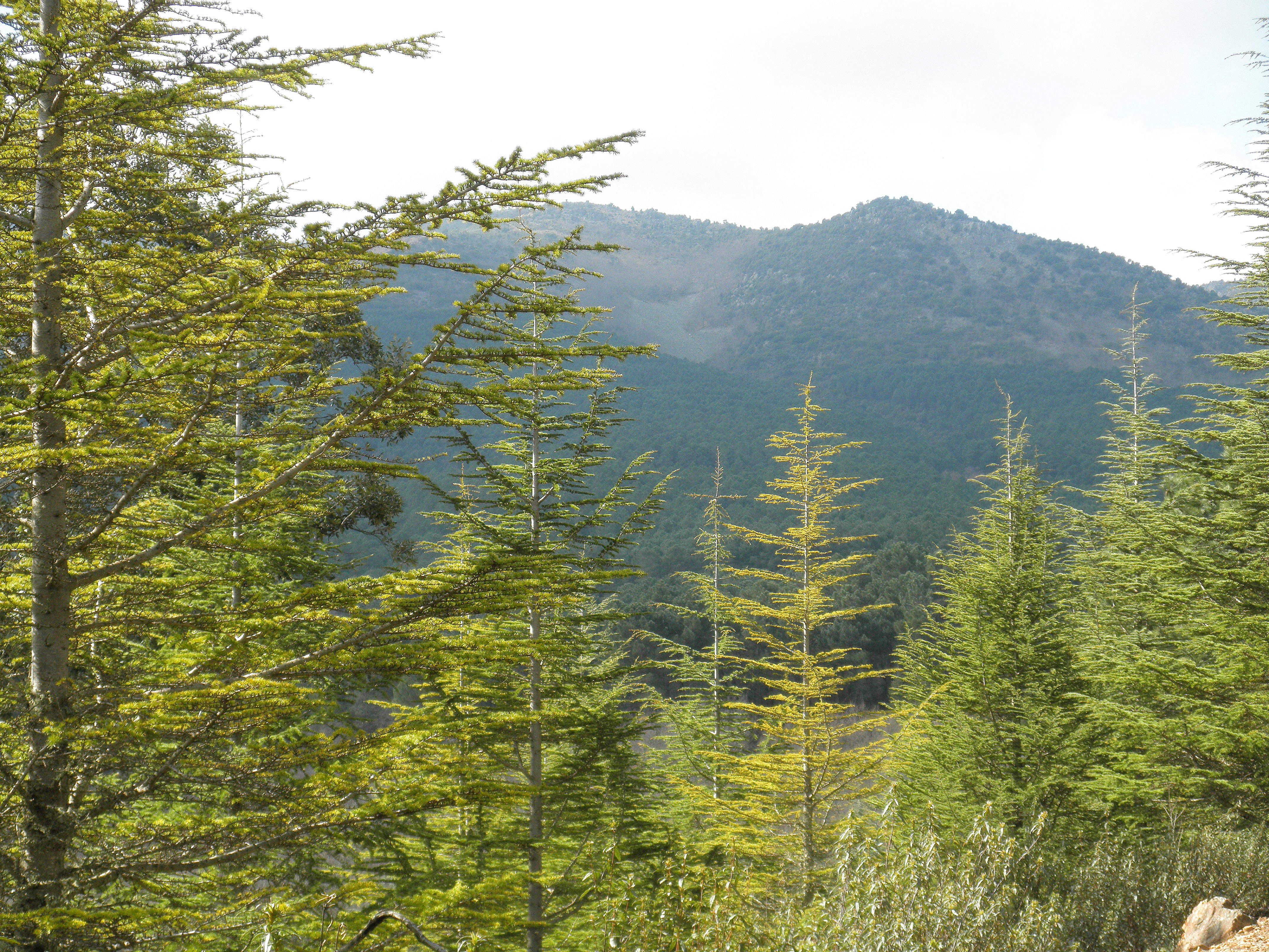 Pico del Nacedero, Sierra Madrona, Spain